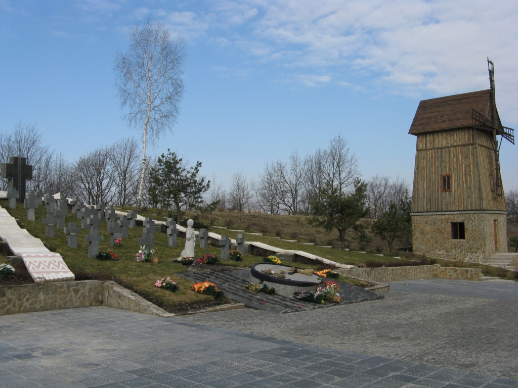 Monument Holodomor in Obukhov, Ukraine.